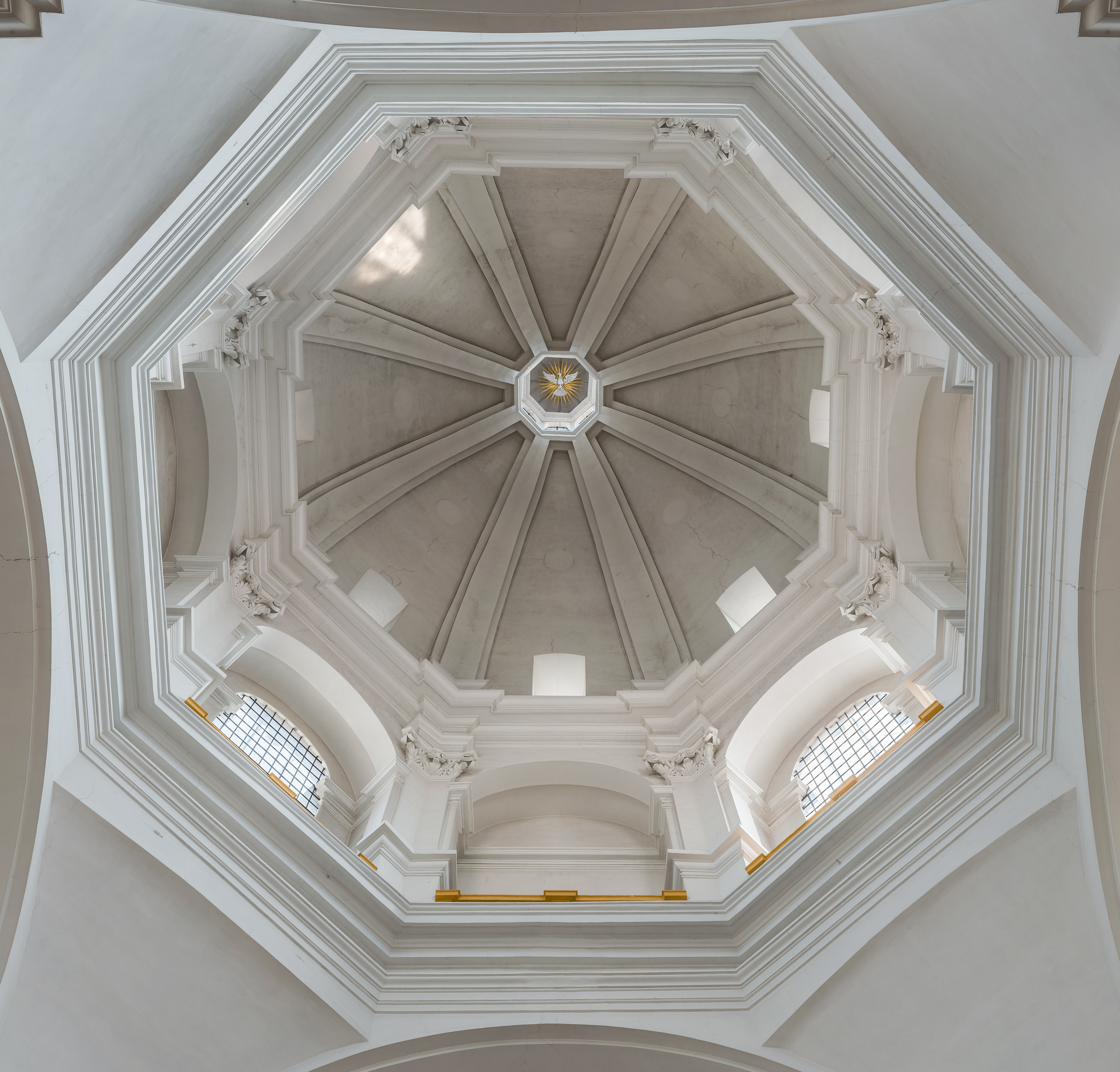 The cupola of Stift Haug, WürzburgThis is a photograph of an architectural monument.